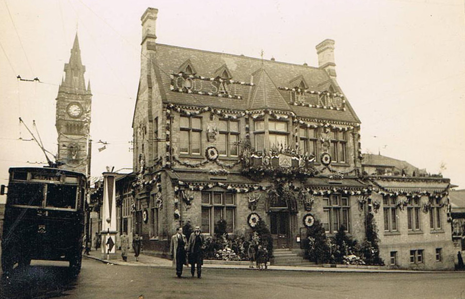 Darlington's Town Hall Decorated for Coronation of King George VI. Taken from the Harold M. Monck's Journals.